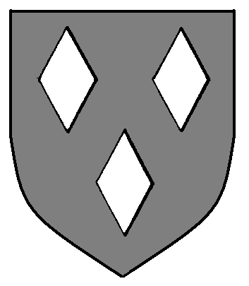 Armorial of the House of Lilburn